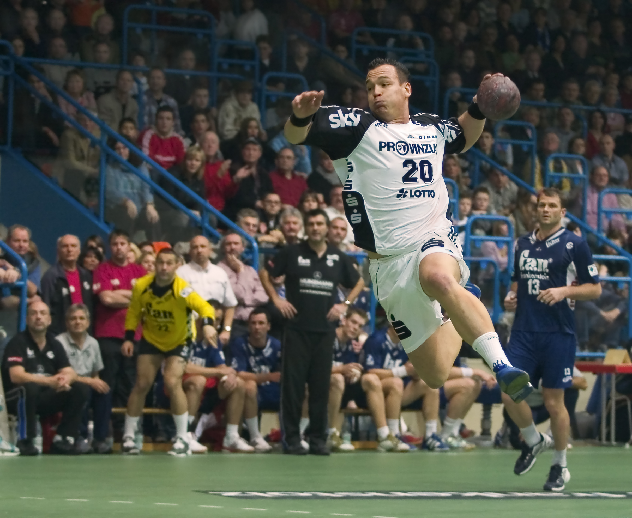 Christian Zeitz, on December 30th 2006 in Aschaffenburg (Germany), during the game TV Grosswallstadt - THW Kiel (25:30).